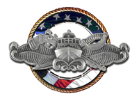 Insignia of SWCC